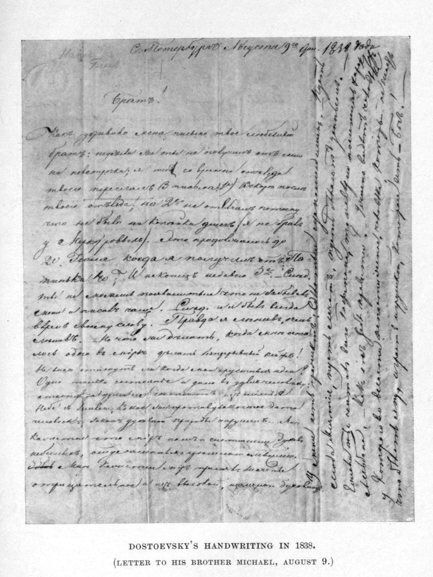 A Letter written by Dostoyevsky